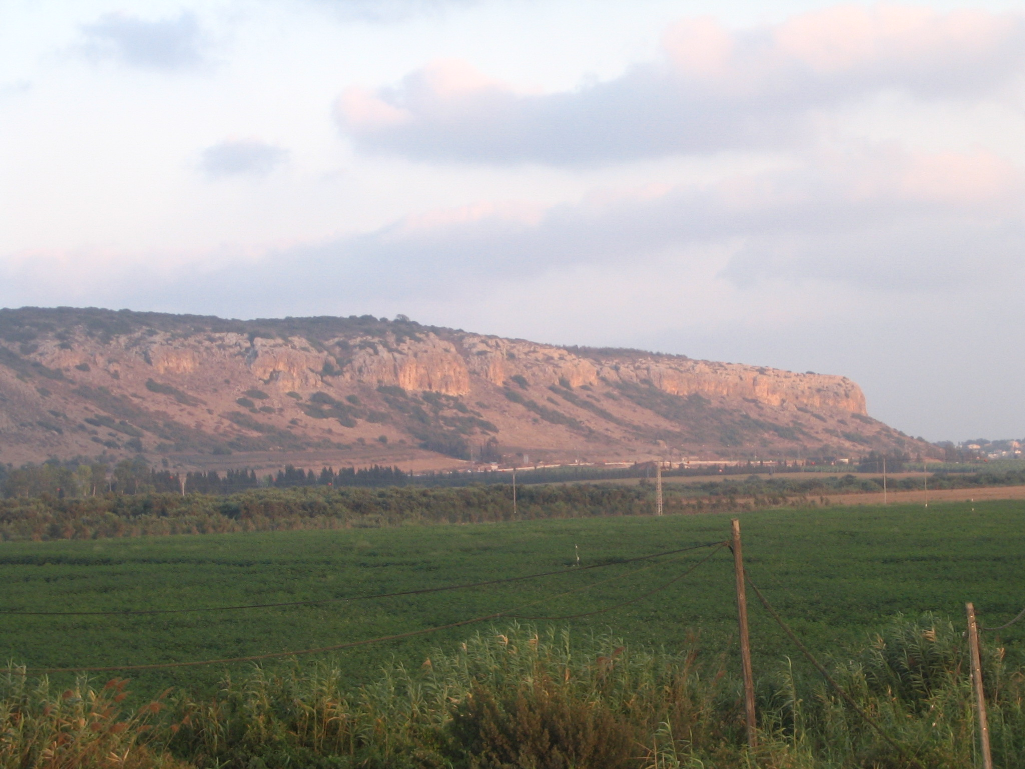 A beautiful picture of the southwest face of mount Carmel during the sunset. This picture was taken from the entrance of Kibbutz Ma'agan Michael.